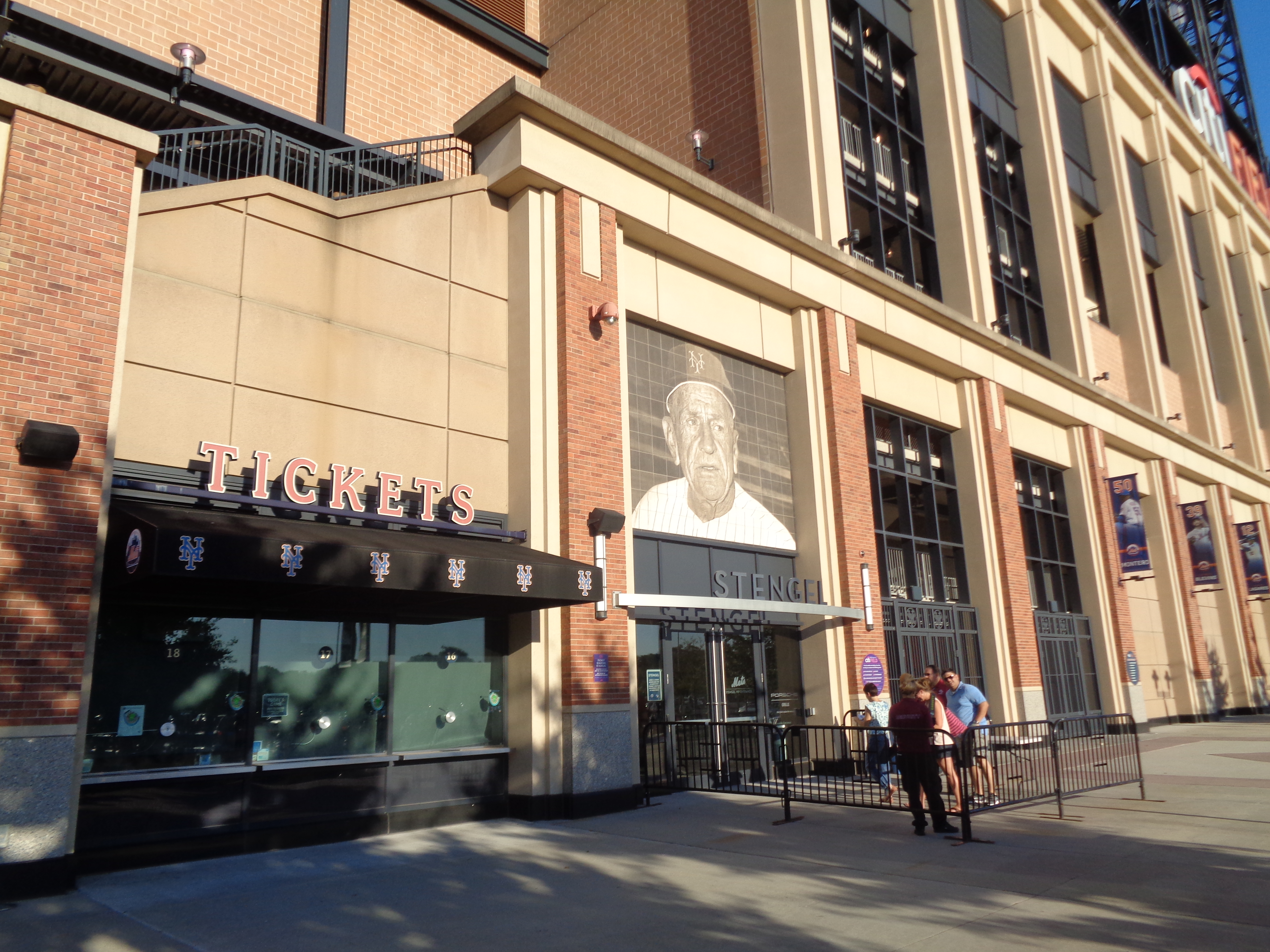 A ticket booth (left) and the Stengel Gate (a VIP entrance) along the left field side of Citi Field, prior to the New York Mets vs. Washington Nationals game.